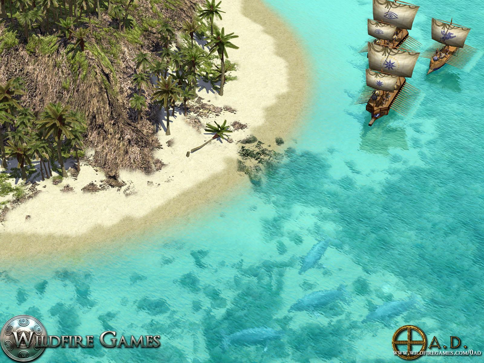 Screenshot of 0 A.D. game